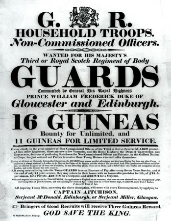 Scots Guards - Recruiting poster of the "Third or Royal Scotch Regiment of Bodyguards, Captain Aitchison Recruiting", 1808 - 1816